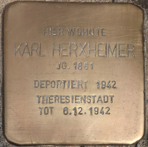 Frankfurt Karl Herxheimer Stolperstein